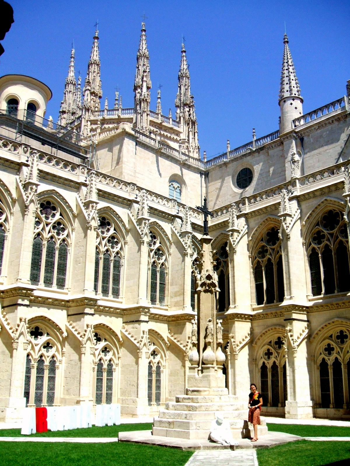 Claustro de la Catedral de Burgos. España